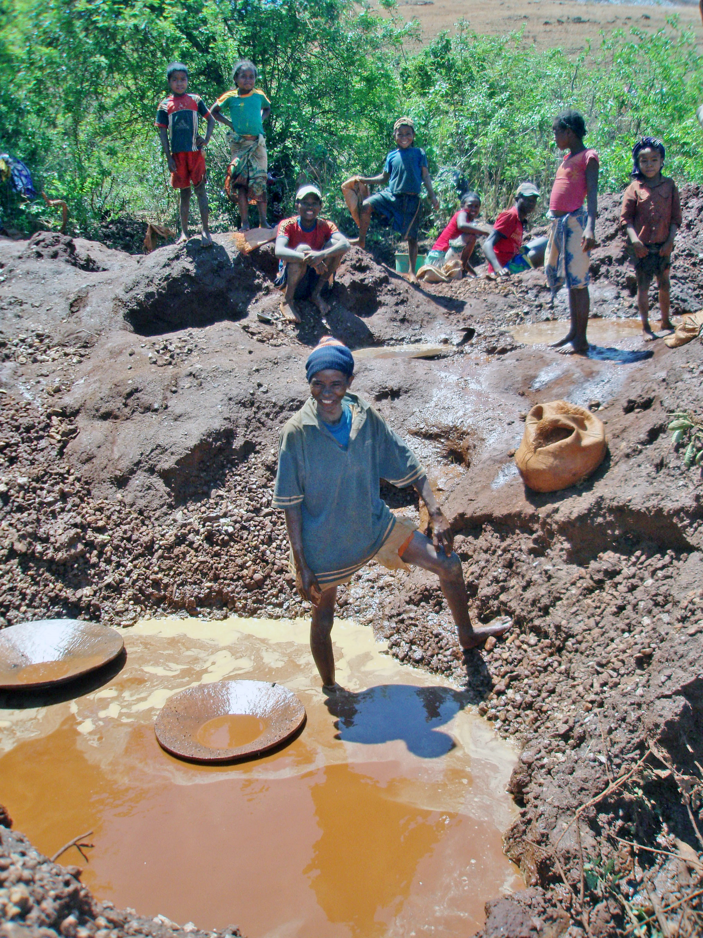 Gold washing at Anosivola village